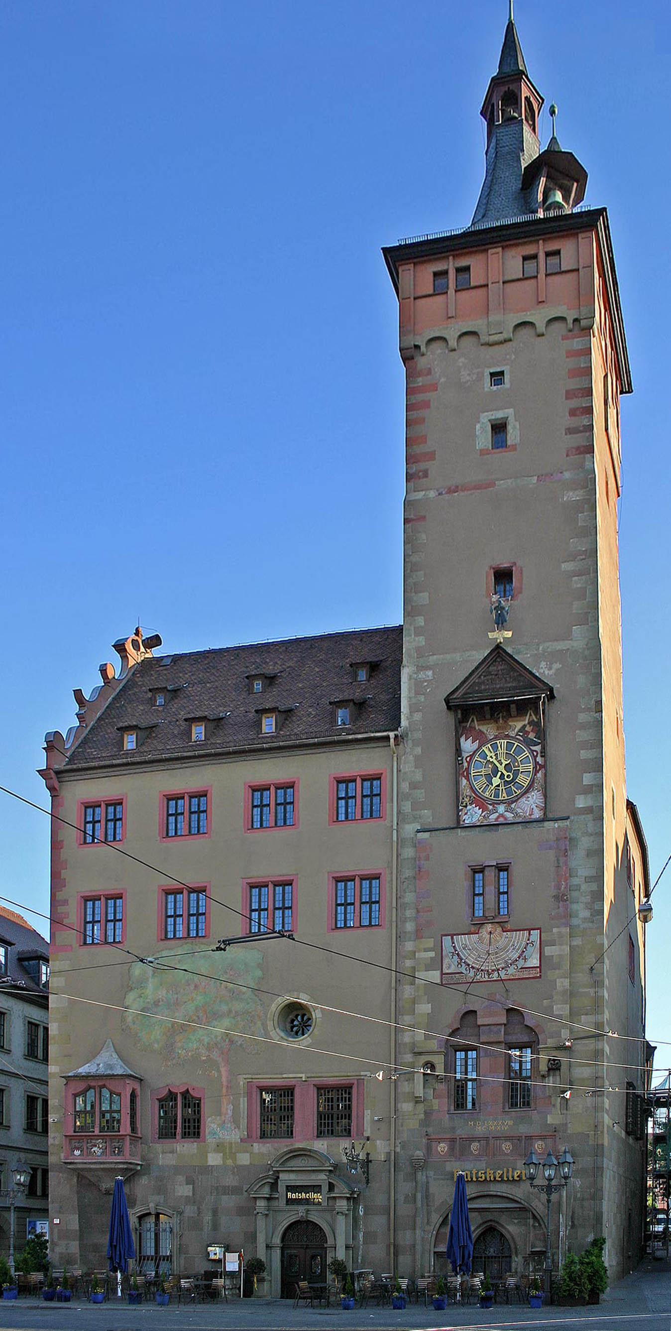 old city hall of Würzburg, the Grafeneckart